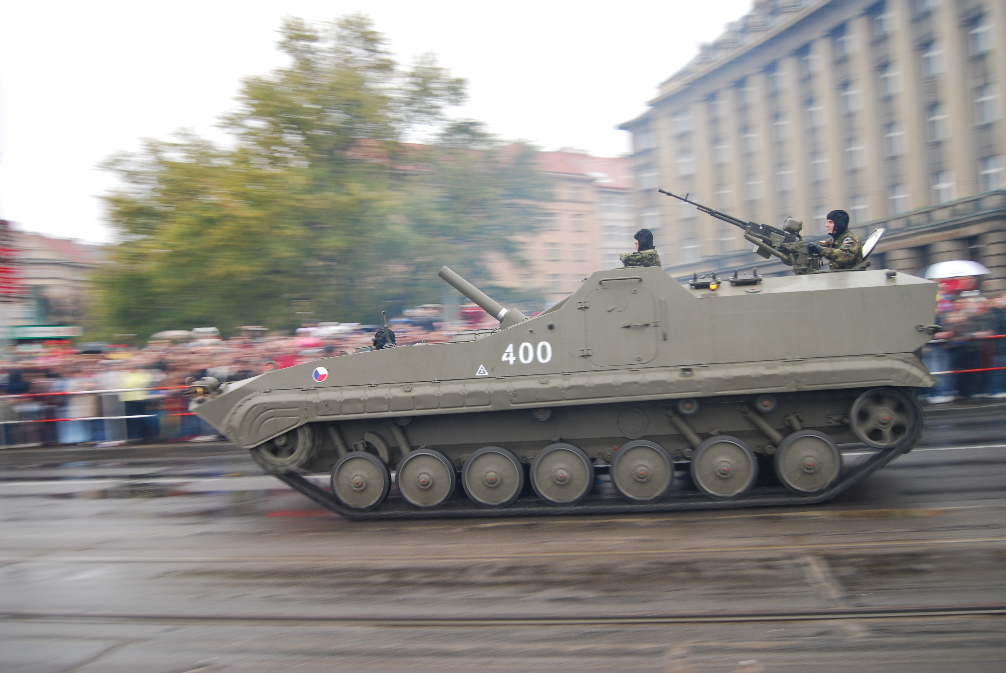 Military parade in Prague, Czech Republic as the 90th anniversary of independence of the Czechoslovakia. 120 mm samohybný minomet PRAM